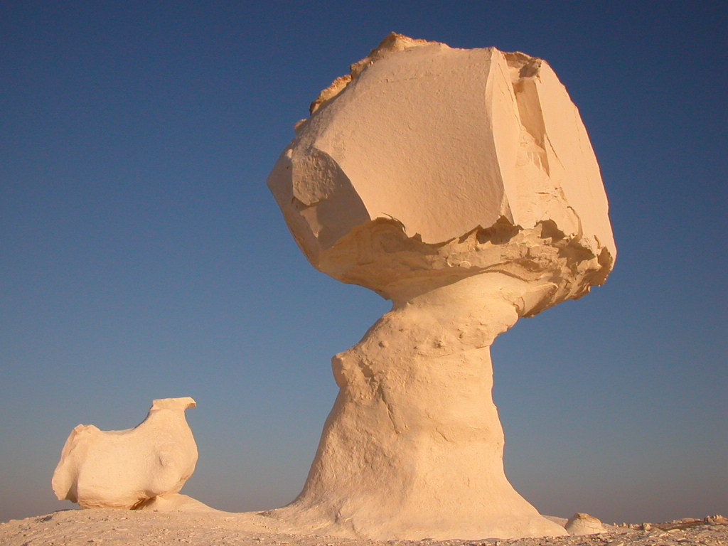 Limestone rock formation in the White Desert, western Egypt.